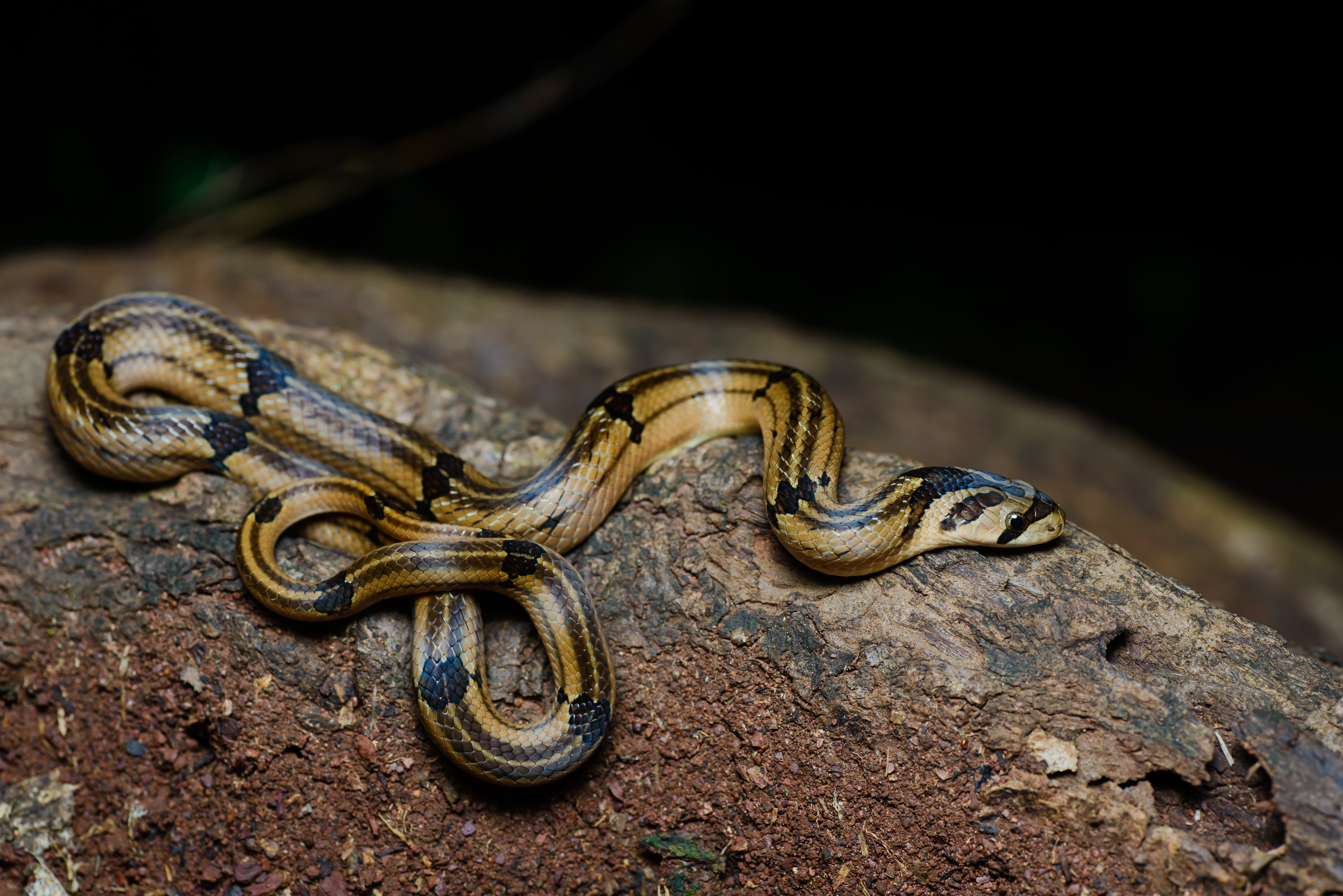 A possible Oligodon fasciolatus with unusual coloration, perhaps a new species to be split form O, fasciolatus? This photo is published under Creative Commons Attribution-Share-Alike Licence, means you are free to use this photo with attribution under same licence. For credits, please use following; Owner: Thai National Parks Link